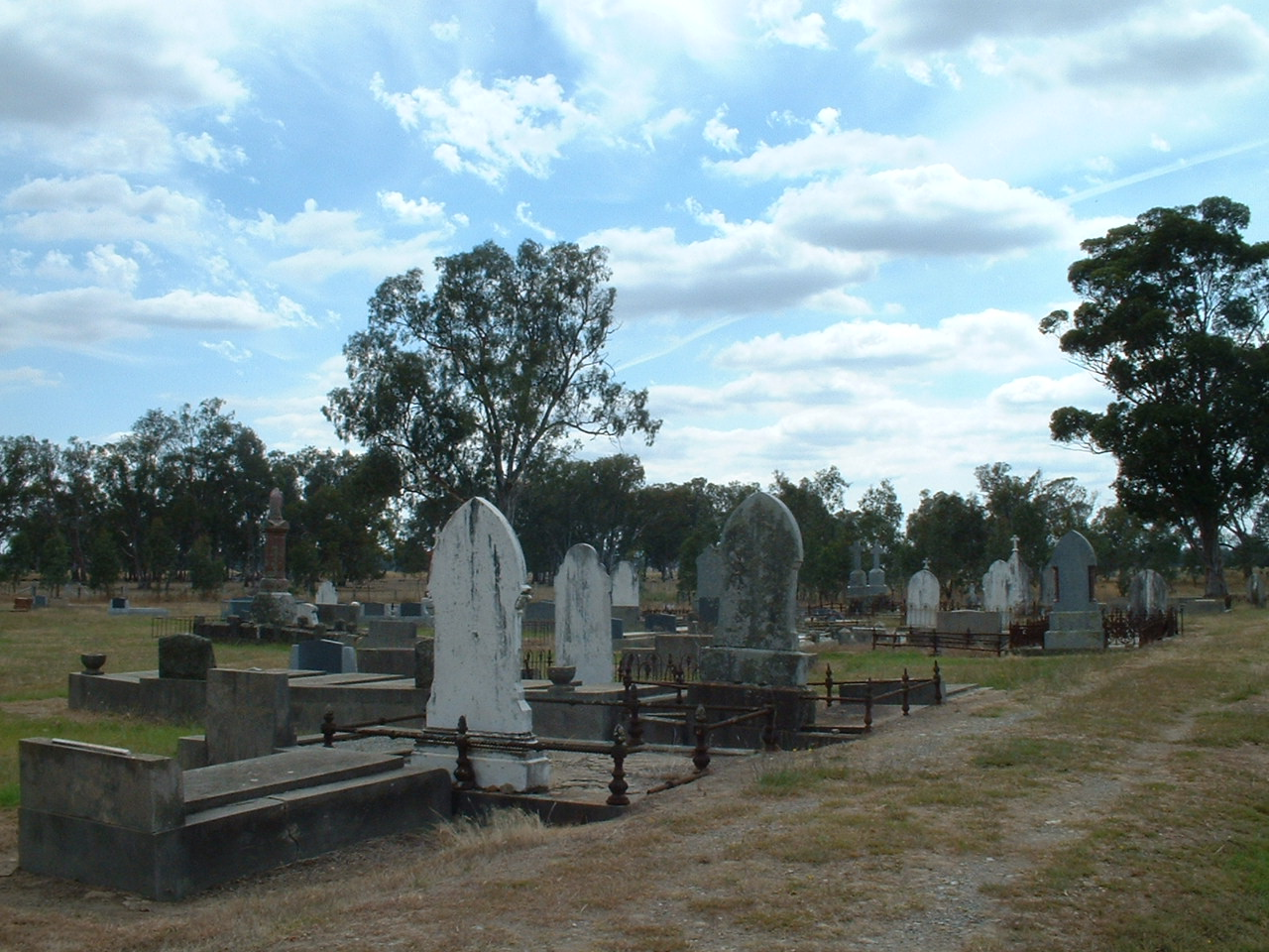 Cemetery at Greta, Victoria. Bushrangers Dan Kelly and Steve Hart are buried in unmarked graves. Ned Kelly's mother and brother Jim and also buried here.